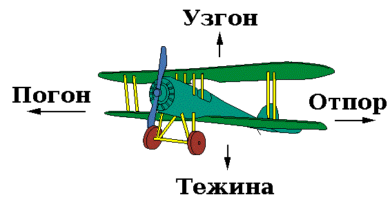 Main forces on a heavier-than-air aircraft